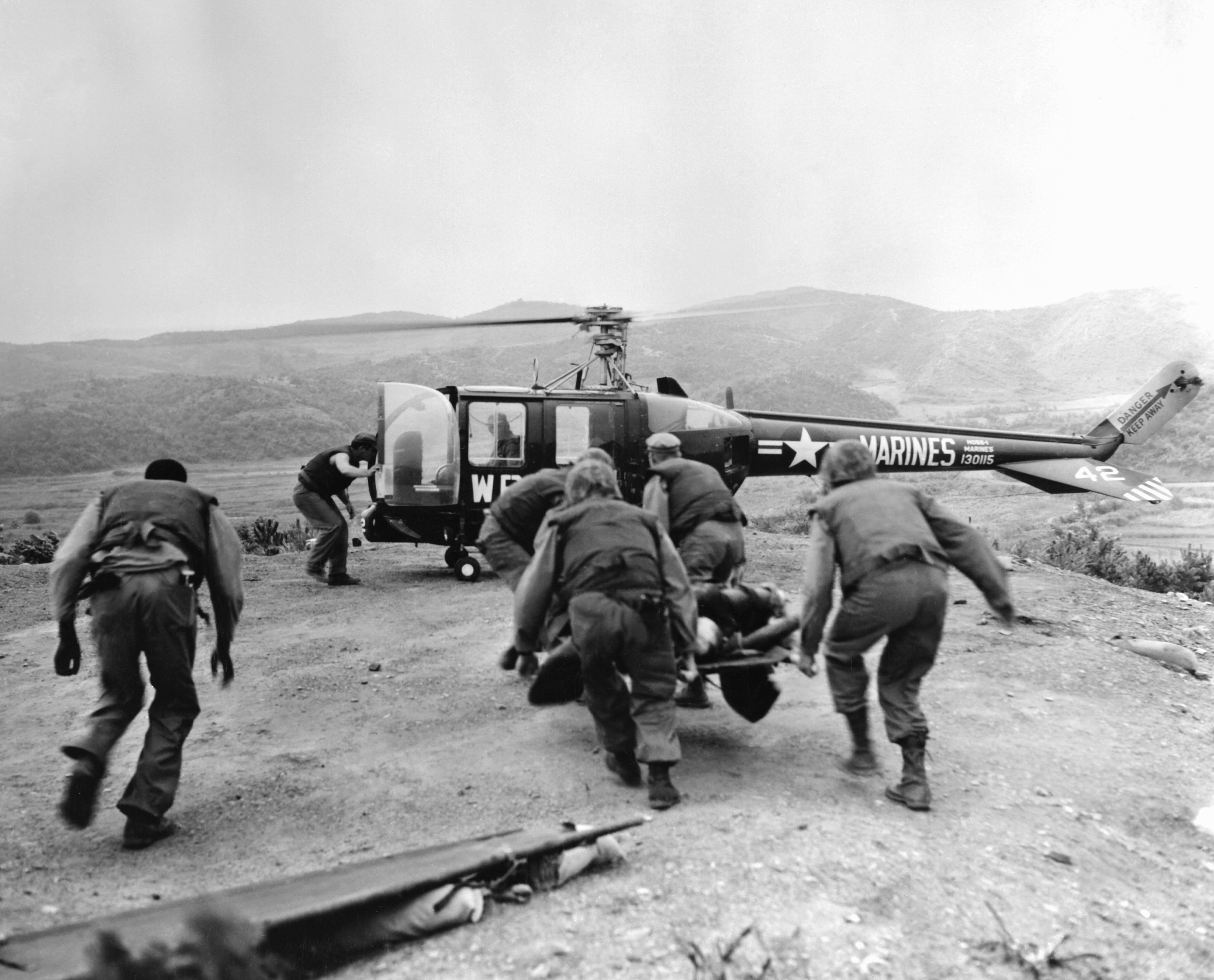 A U.S. Marine casualty is taken to an awaiting Sikorsky HO5S-1 (BuNo 130115) of Marine Observation Squadron VMO-6. Original caption: "CASUALTY - A Marine casualty is quickly taken to an awaiting helicopter to be rushed to an aid station."